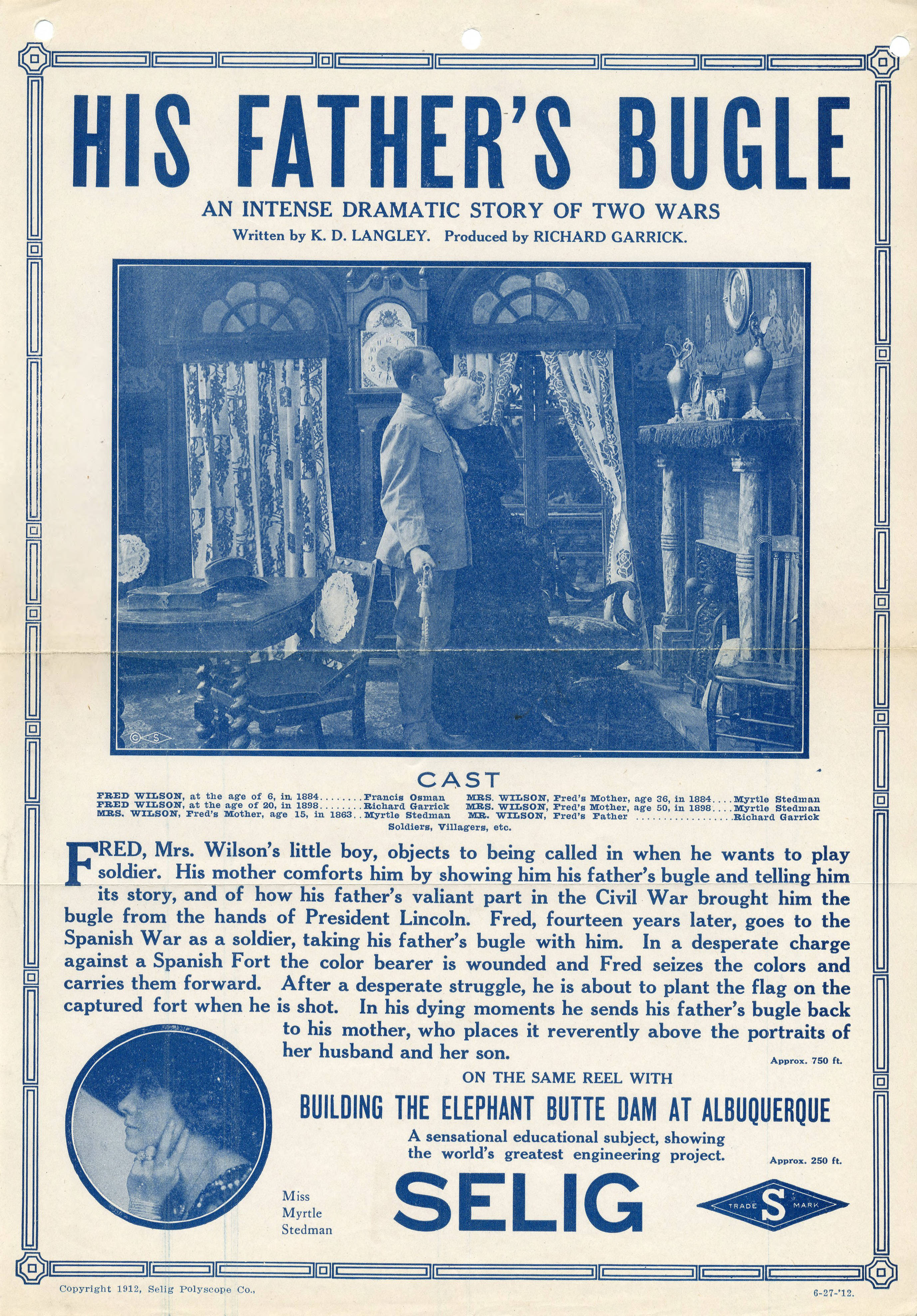 Release flier for HIS FATHER'S BUGLE, 1912